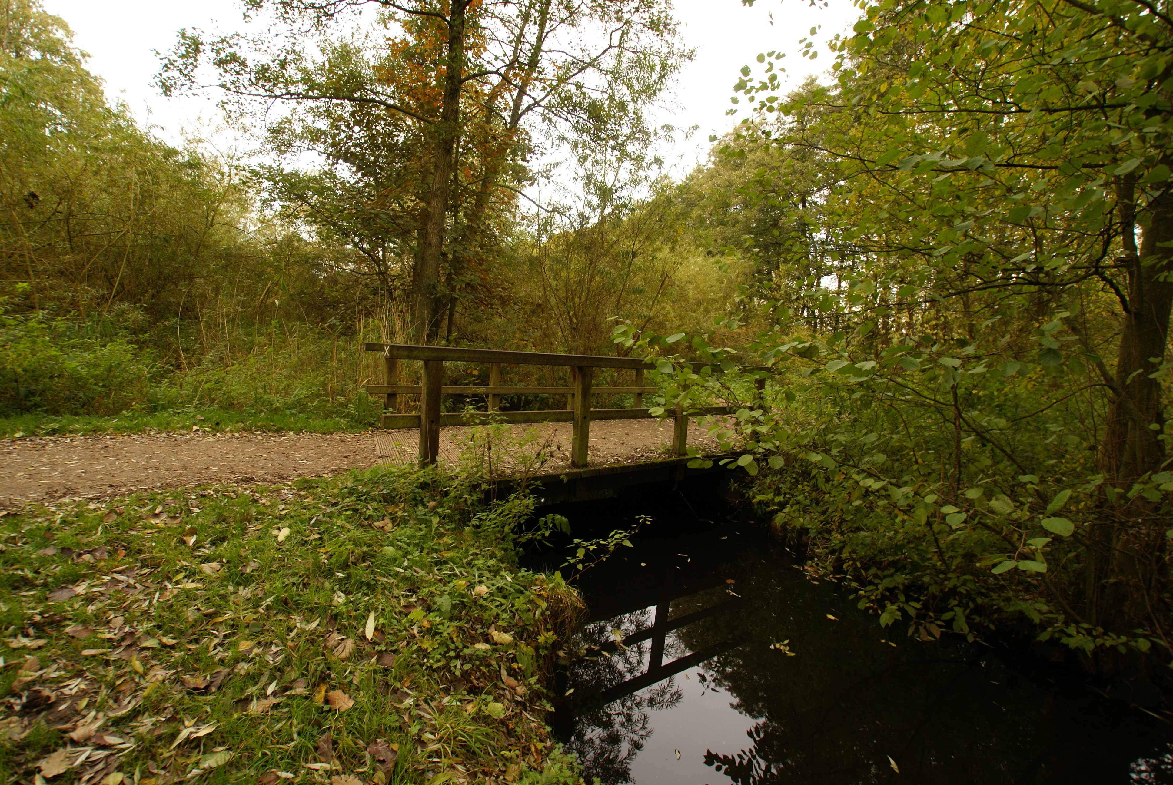 Reinbek, Germany: Bridge over the Forstgraben